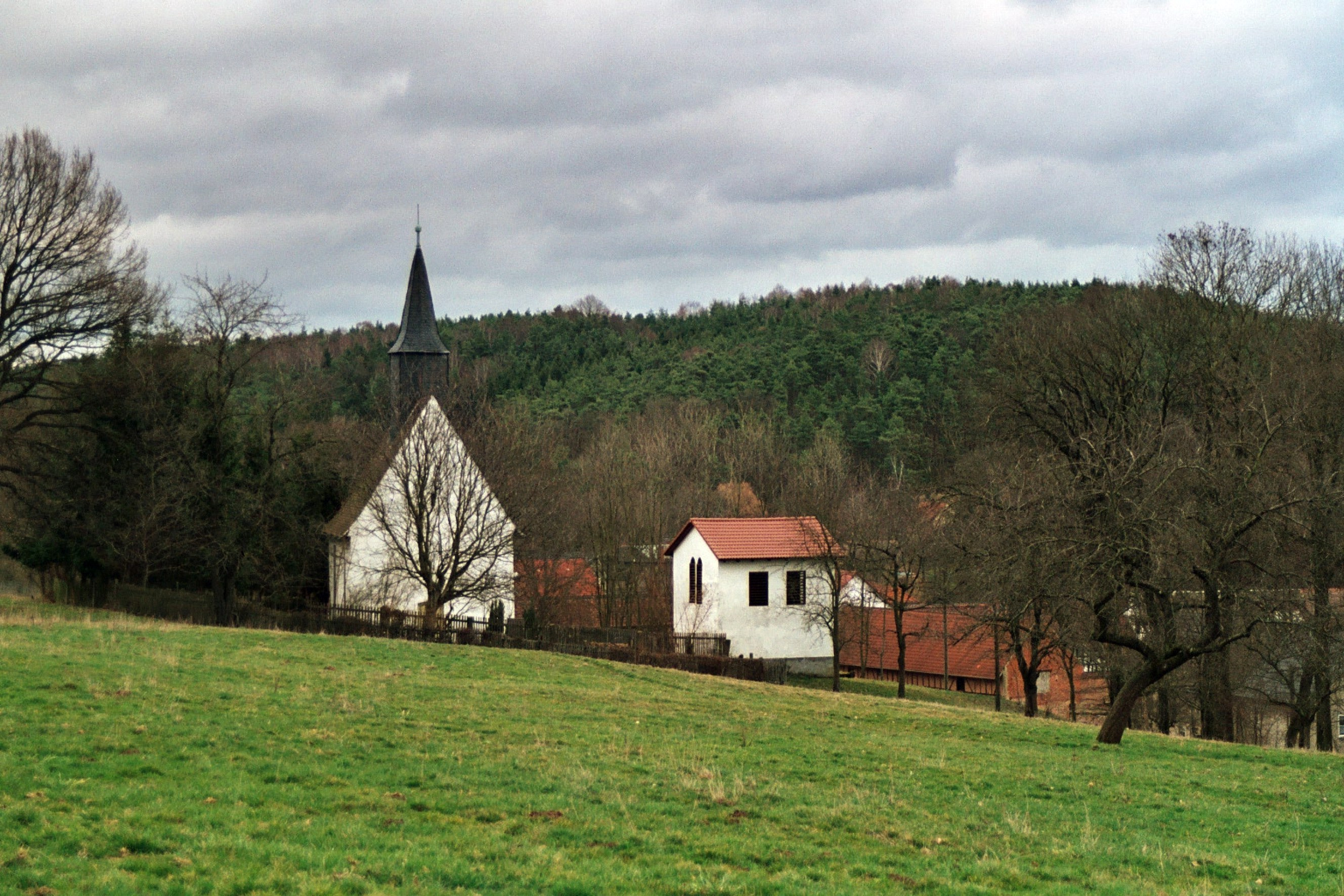 Schöna (Münchenbernsdorf), the village church